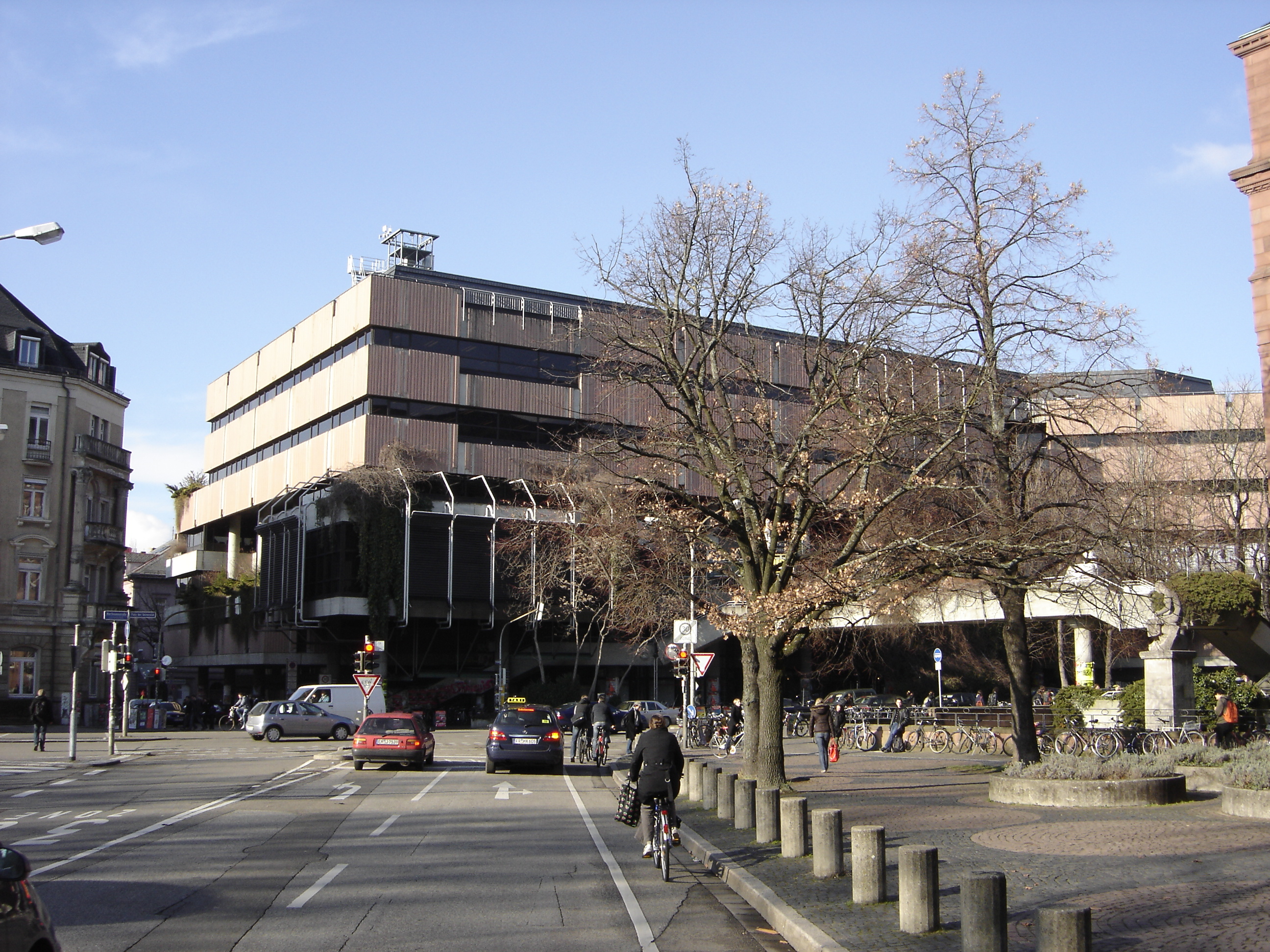 Main library building, currently about to undergo significant renovations, including a new facade.